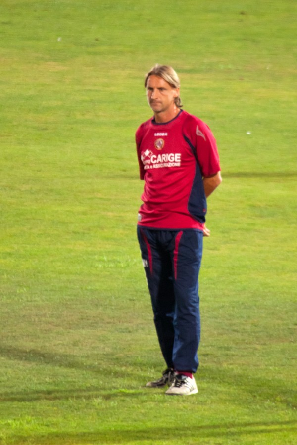 Davide Nicola, trainer of AS Livorno Calcio in 2012-13 season.